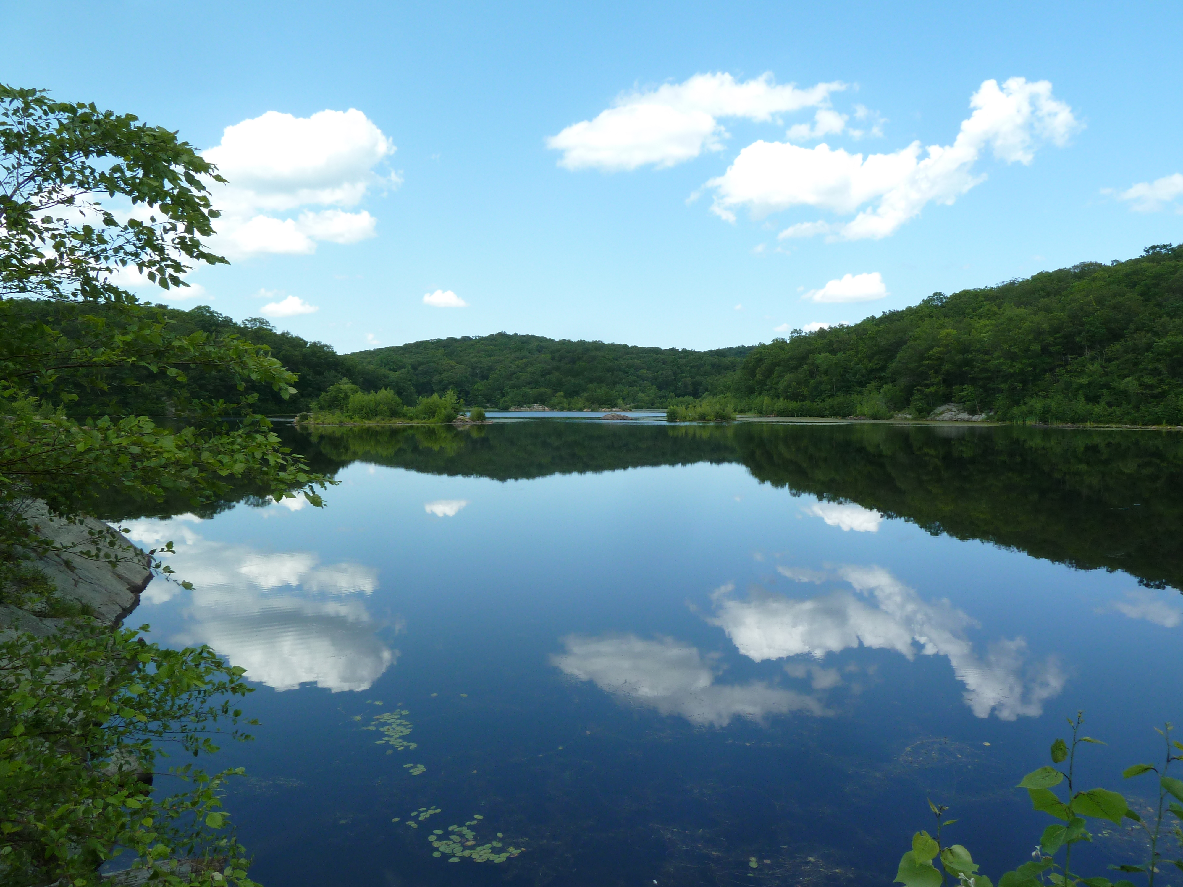 Butler reservoir. View from the edge of the dam.